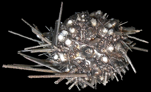 Picture of Diadema savignyi